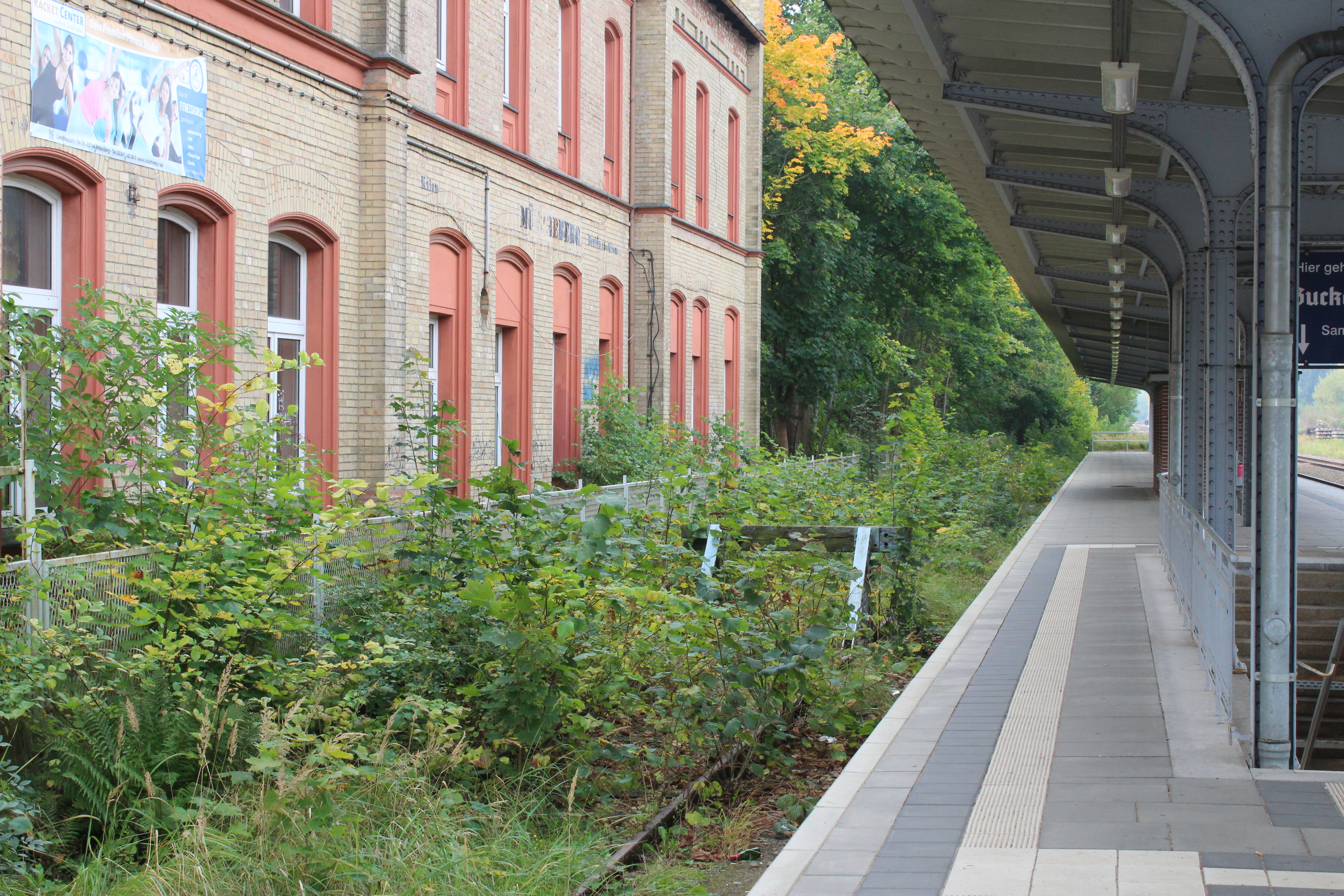 train station Müncheberg (Mark), platforms